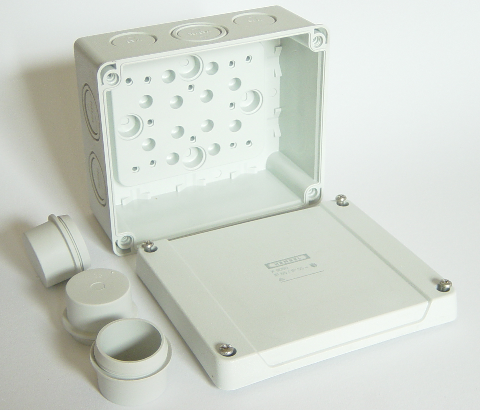 Thermoplastic junction box, free of halogen. Make: Hensel K 9060. On-wall mountable, International Protection Rating (IP) 55, Outside dimensions: 114 x 94 x 52 mm